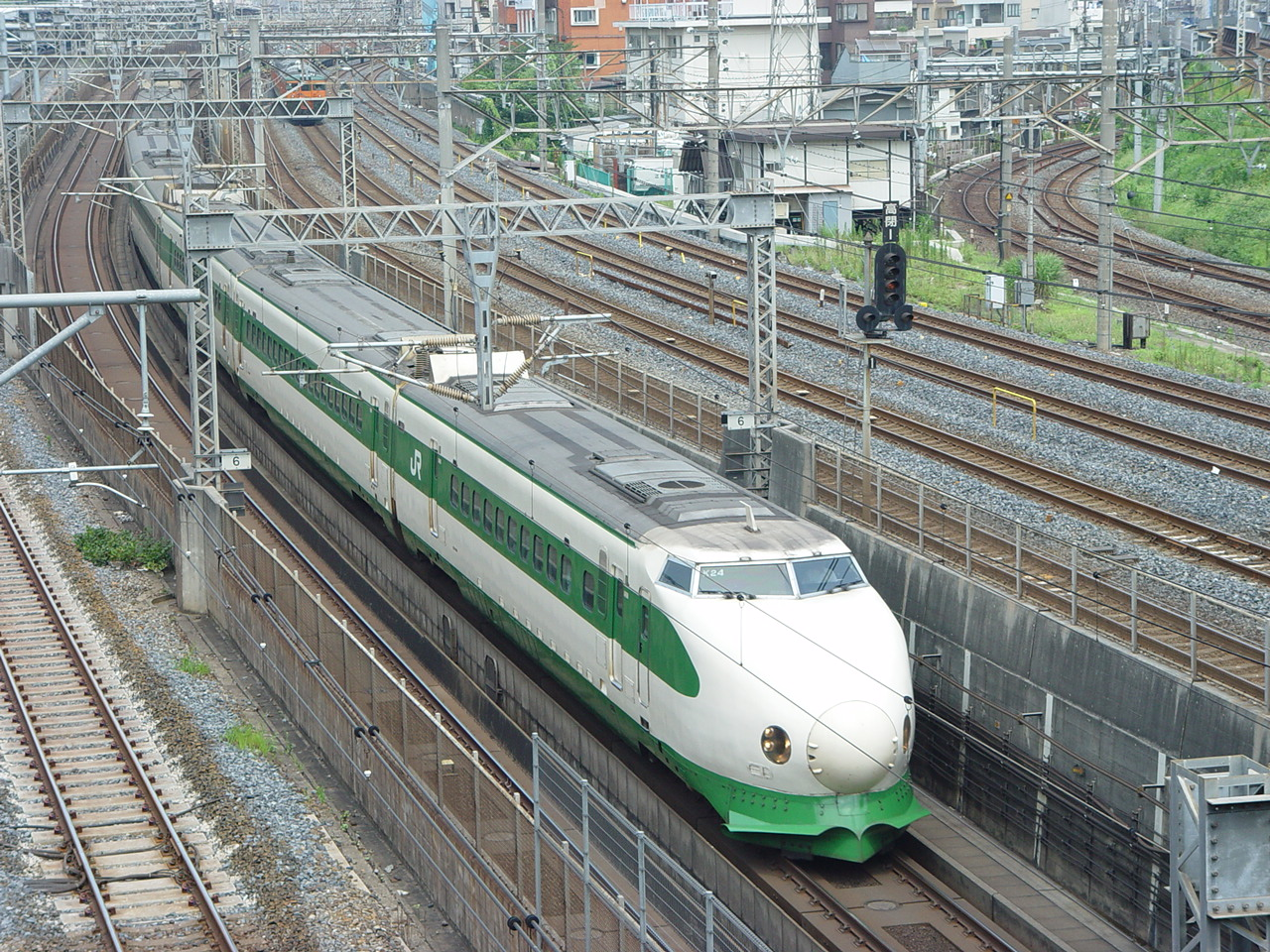 200 series Shinkansen (set K24) near Nippori in Tokyo on a Tokyo-bound "Asahi" 306 service from Niigata